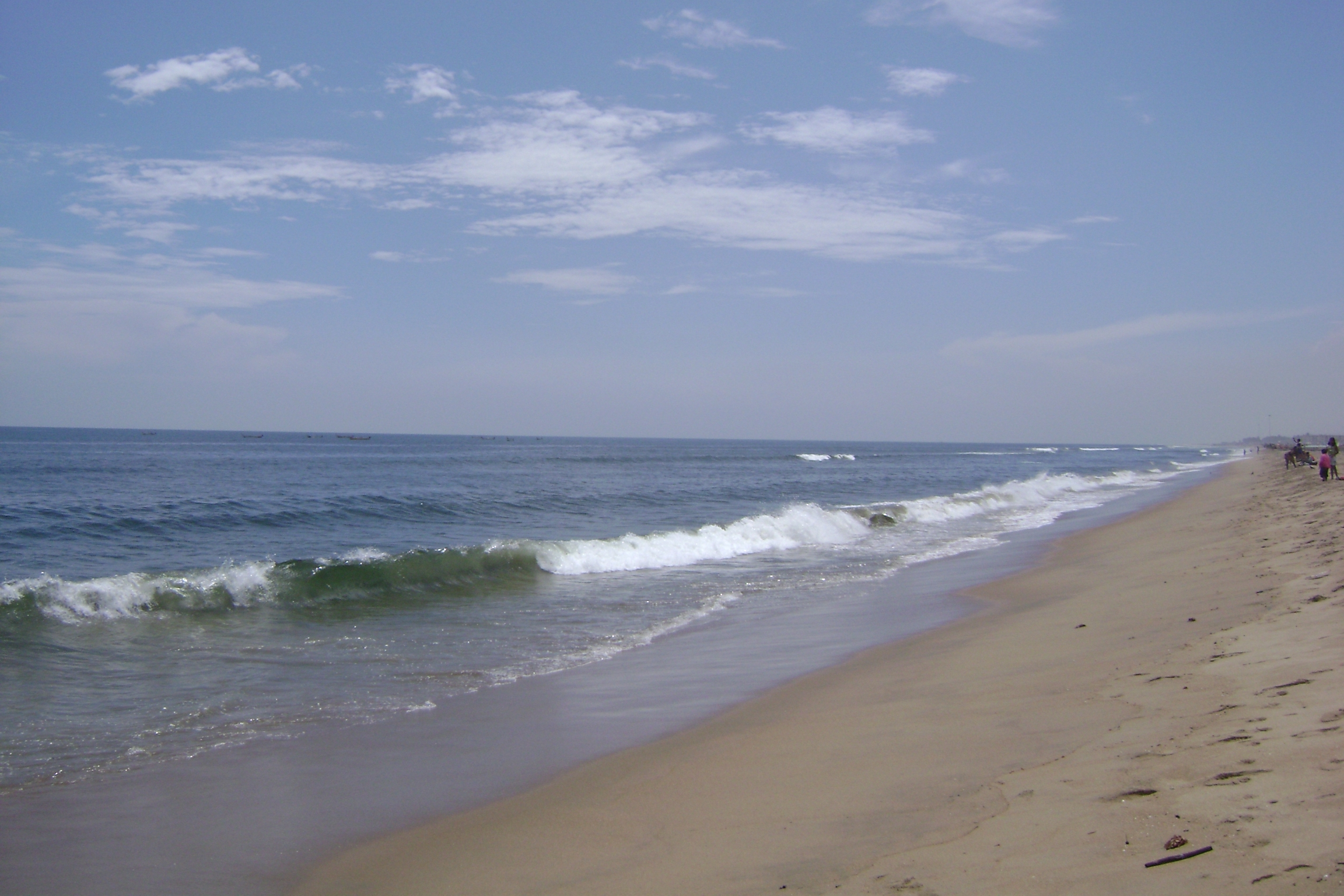 Marina Beach in Chennai